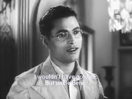 Pankaj Mullick in the film Doctor, 1941